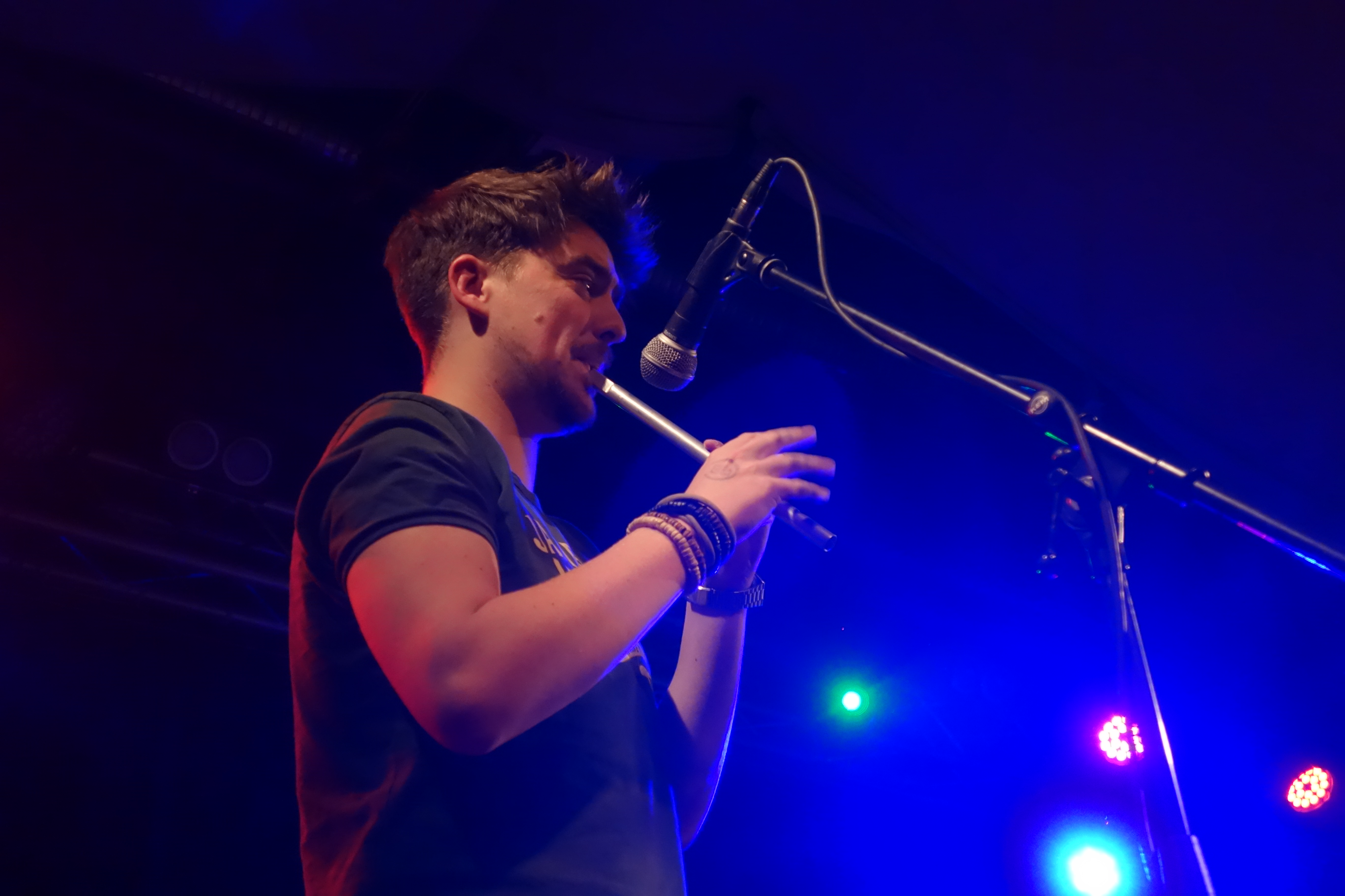 Danny McGuinness of The Wakes live at "Das Bett", a club in Frankfurt April 2017